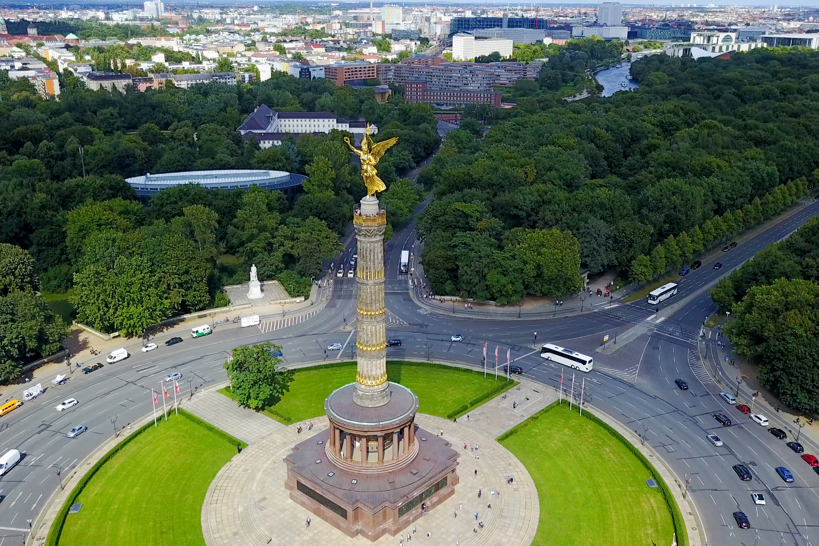 Bird's eye view of the Siegesäule (victory column) in Berlin TiergartenThis is a photograph of an architectural monument.